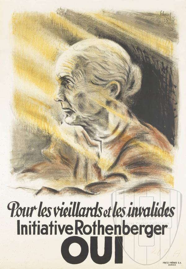 Swiss advertisement for votation regarding Rothenberger Initiative in 1925